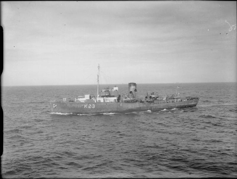 The Royal Navy during the Second World War The corvette HMS JASMINE, underway at sea during convoy duty.